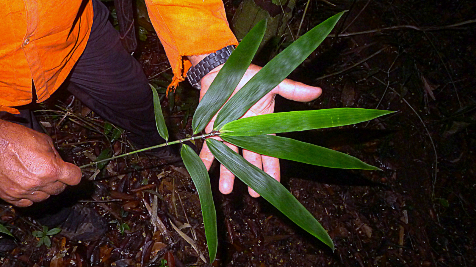 Merostachys procerrima. Photo taken in Mucujê, Bahia, Brasil.